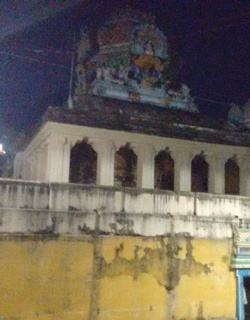 Ambar brahmapurisvarar temple அம்பல் பிரம்மபுரீஸ்வரர் கோயில்